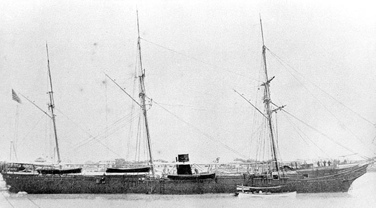 Photograph of a sloop-of-war USS Wachusett